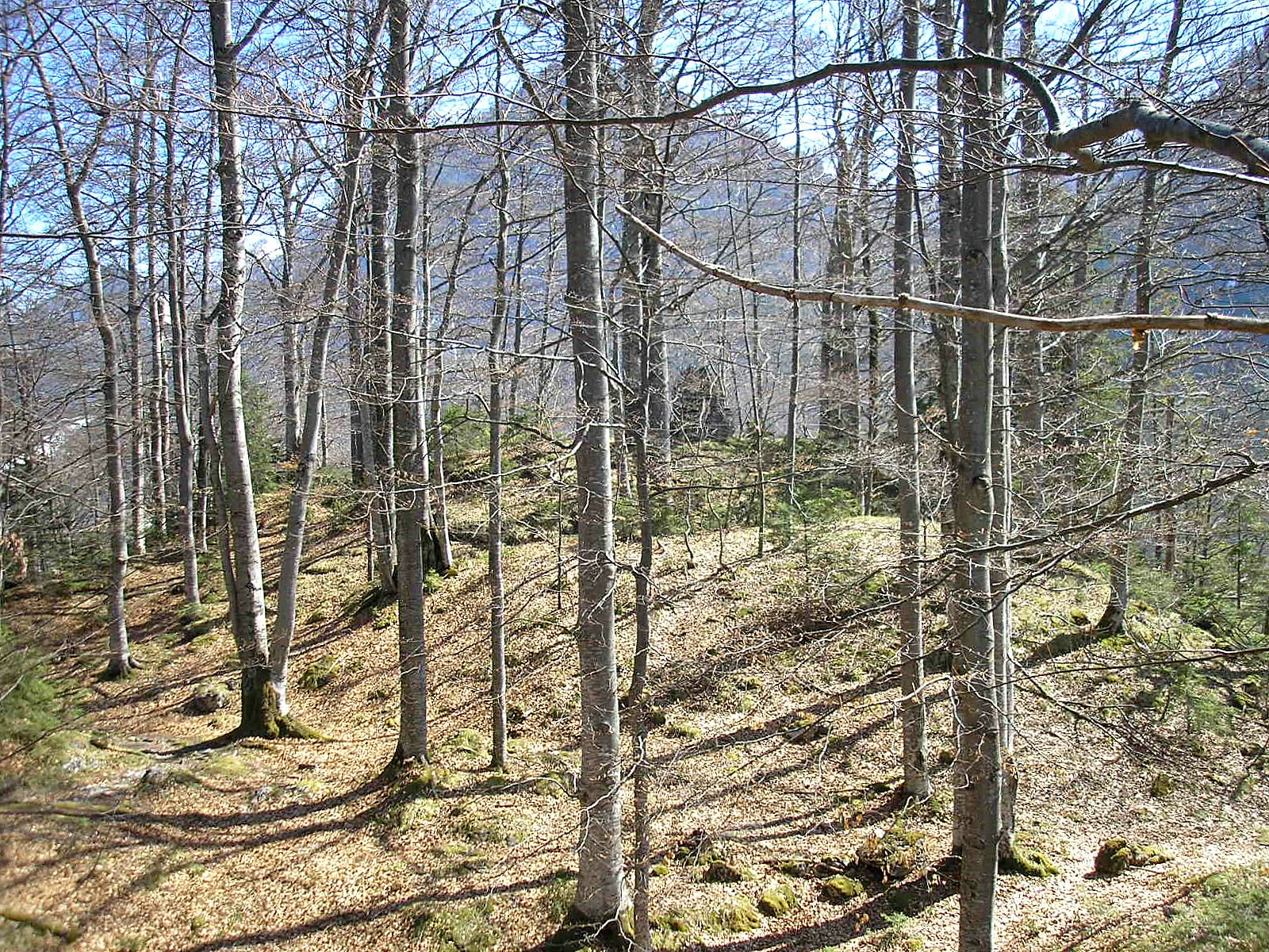 Former Frauenstein castle (Schwangau, Landkreis Ostallgäu, Bavaria, Germany). The central castle from the west